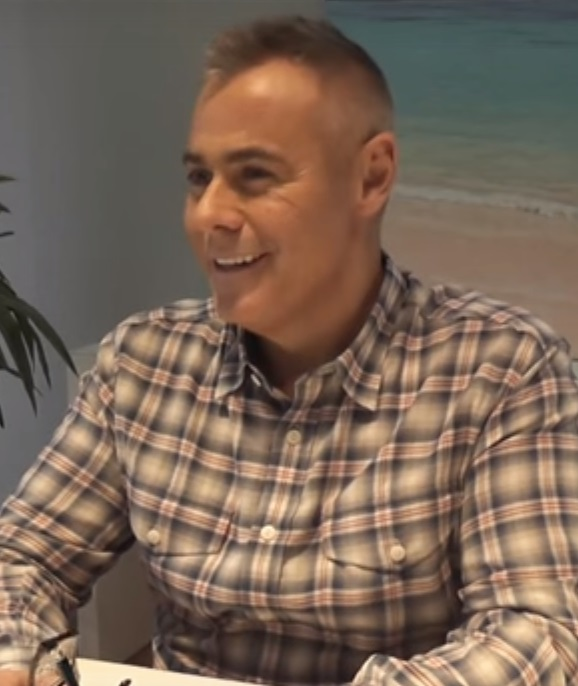 Spanish TV Presenter Jordi Gonzalez